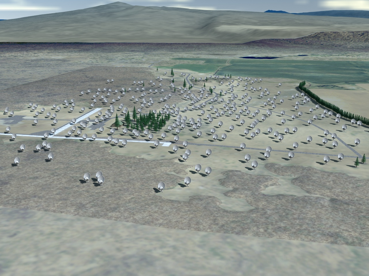 Artist rendering of completed ATA-350. Credit: Isaac Gary